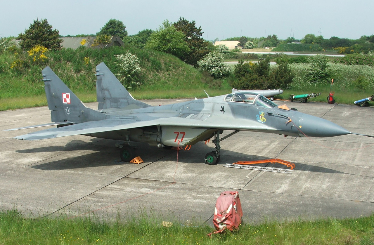 Polish MiG-29 Fulcrum Air Force Base Skrydstrup, Denmark. 2006